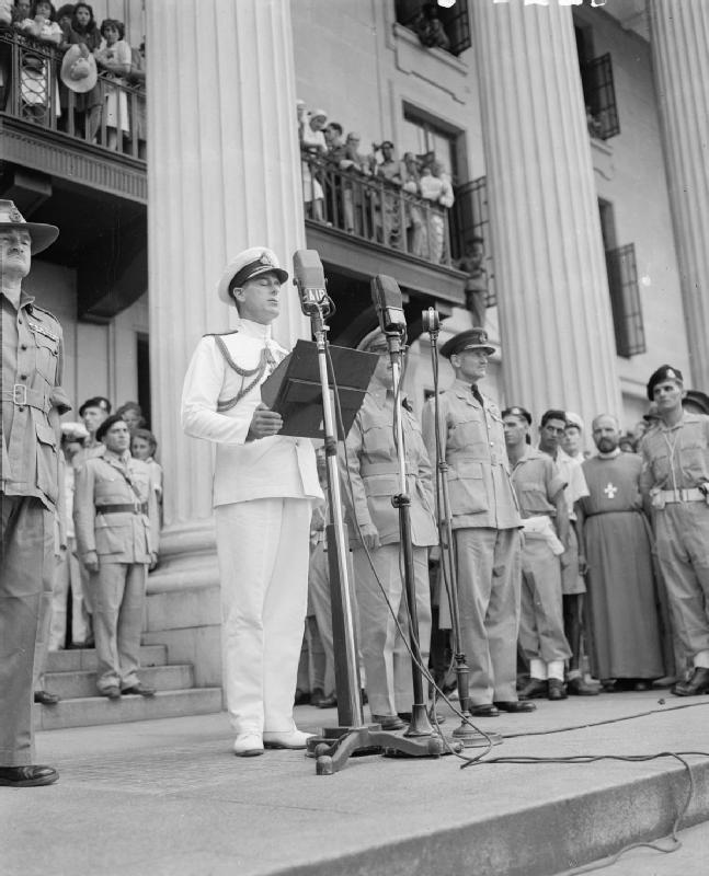 The Japanese Southern Armies Surrender at Singapore, 1945 Lord Louis Mountbatten, Supreme Allied Commander, South East Asia, reads the Order of the Day, announcing the surrender of all Japanese southern armies, from the steps of Municpal Building, Singapore.